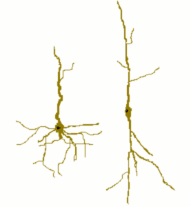 Cartoon of dendritic tree of normal pyramidal cell (left) and spindle cell (right). I created this image using GIMP Please credit Selket or my real name if you find it.